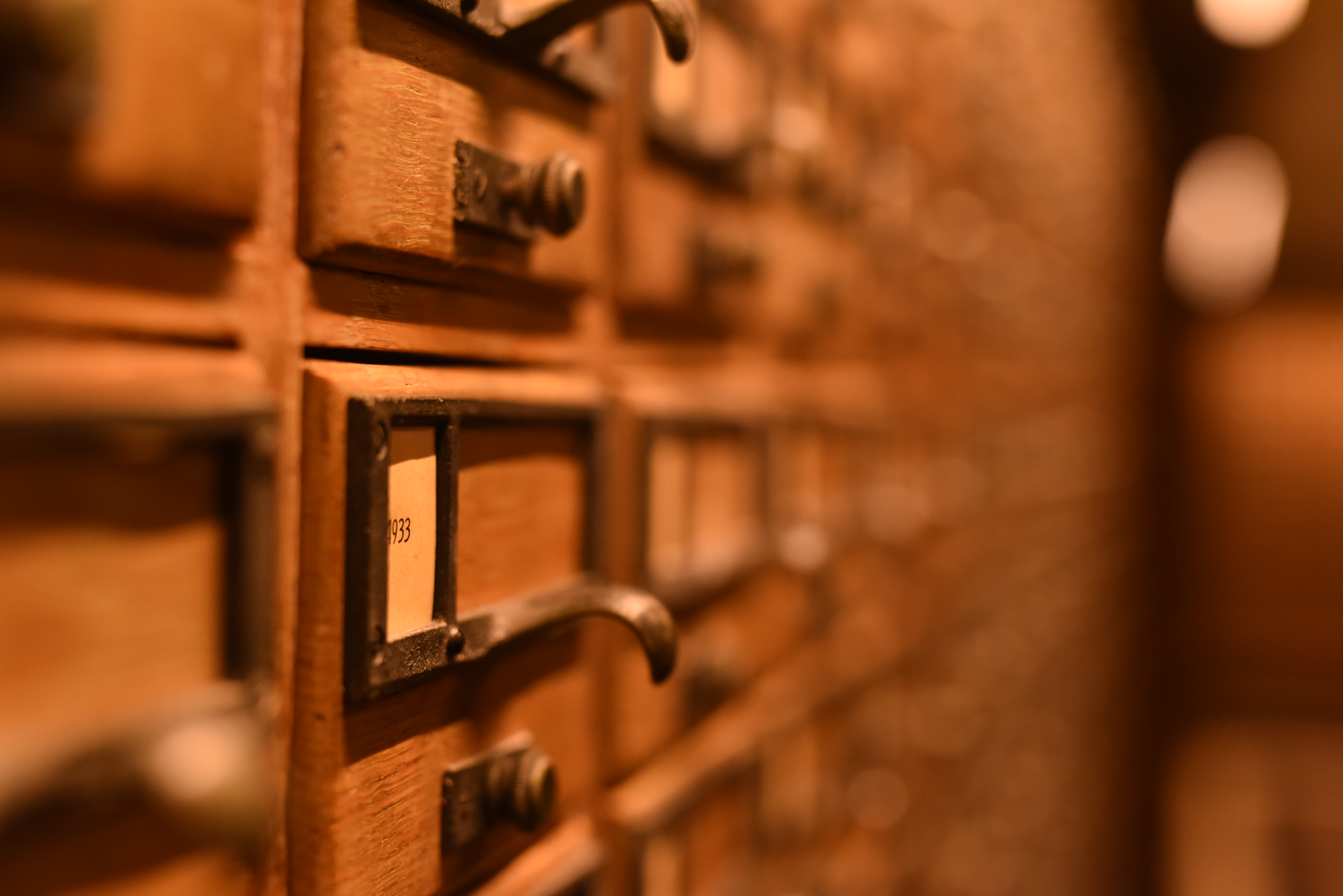 Ficus religiosa. "Sacred Fig" This is the tree famous for the story of Buddha attaining enlightenment underneath it.